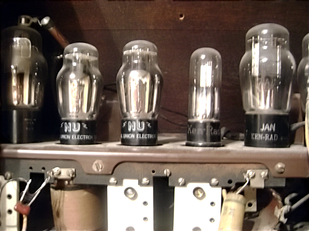 Assumed this is actually playable. Wanted to take cool photos of the tubes inside. Visited the Cantos Foundation museum this week & took a lot of photographs & videos. More photos and videos to come.